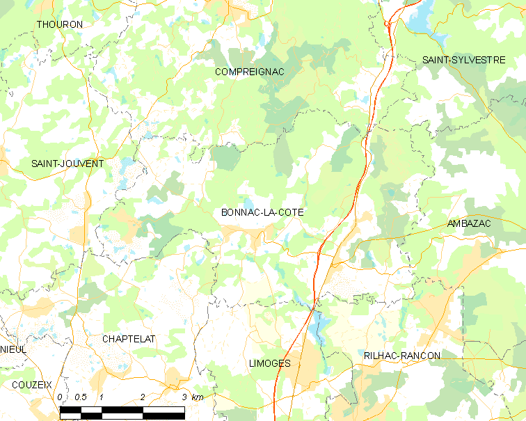 Map of French municipality Bonnac-la-Côte